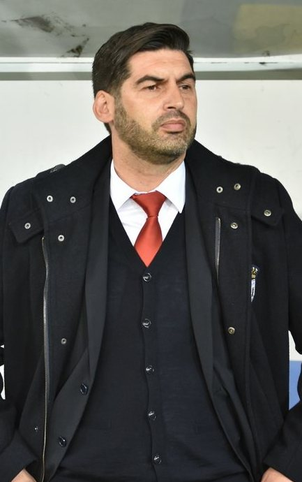 Paulo Fonseca